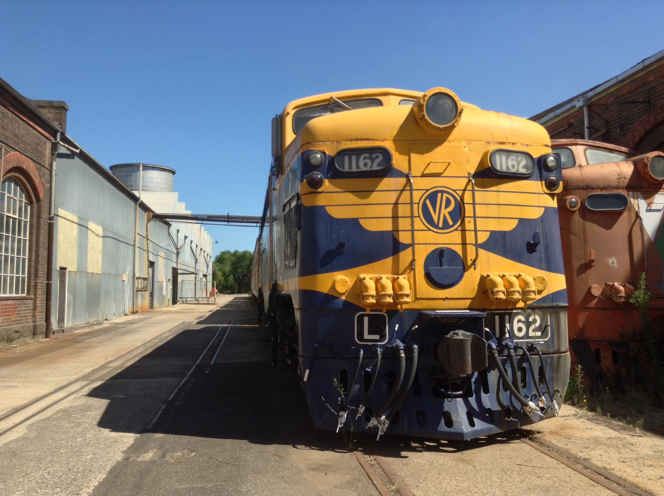 L1162 at Newport Workshops